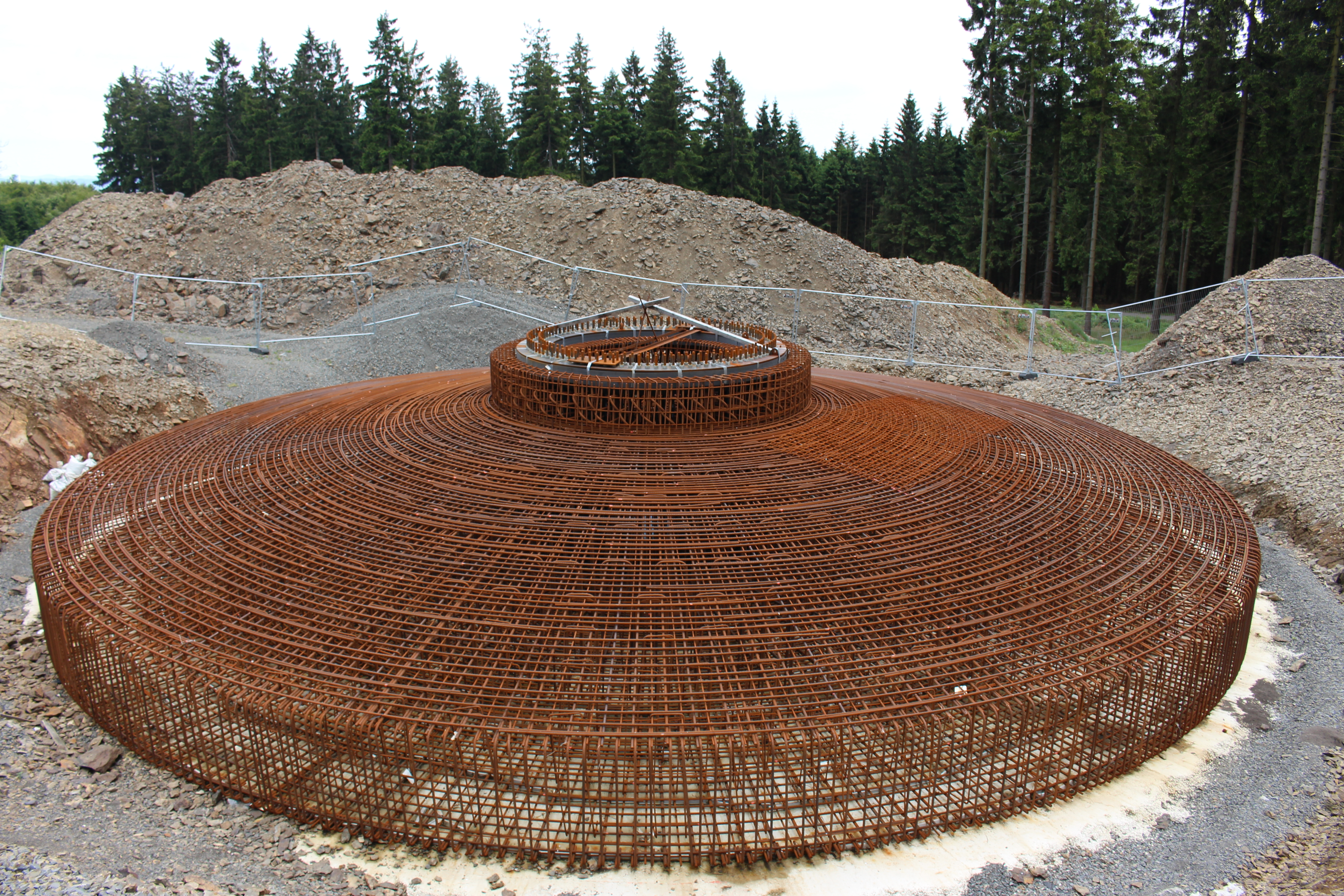 Foundations of a wind turbine of the wind farm Sohl ("Windpar Sohl"), NRW, germany.